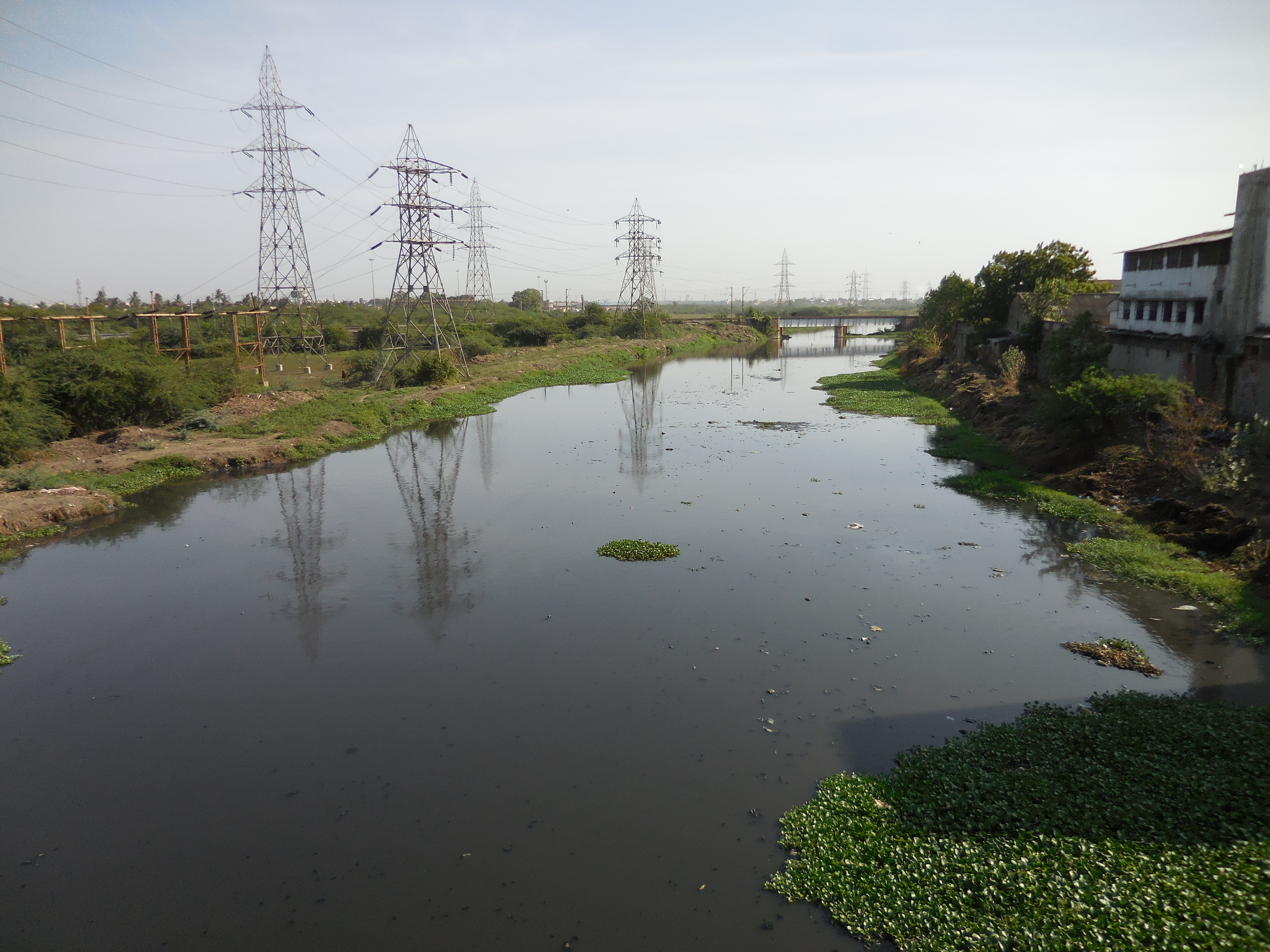 A view of the Buckingham Canal near Korukkupet, Chennai, taken on 4 July 2014 at 8:24 am